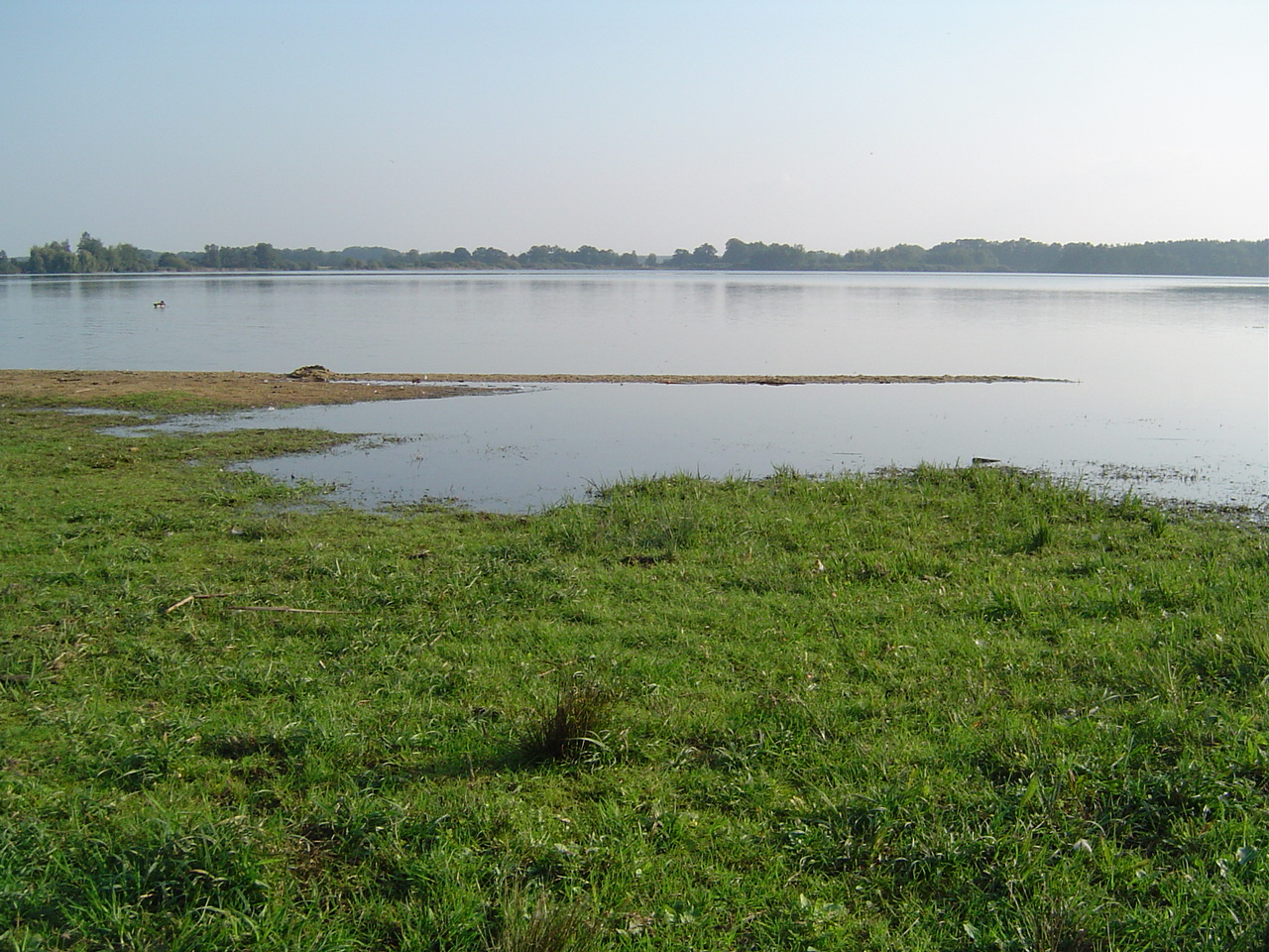 Pond Svět from northwest